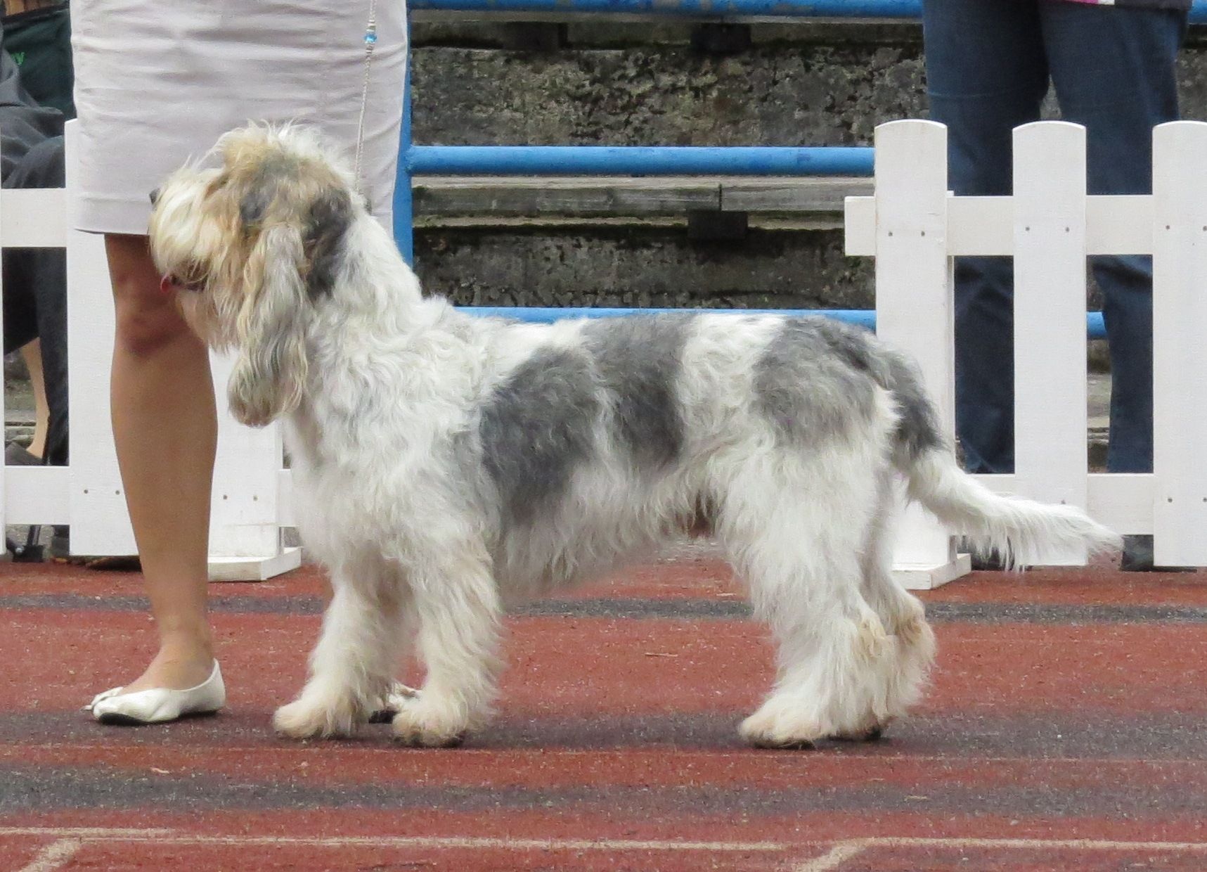 Grand Basset Griffon Vendéen, Tallinn, duo CACIB, 17-18 Aug 2013